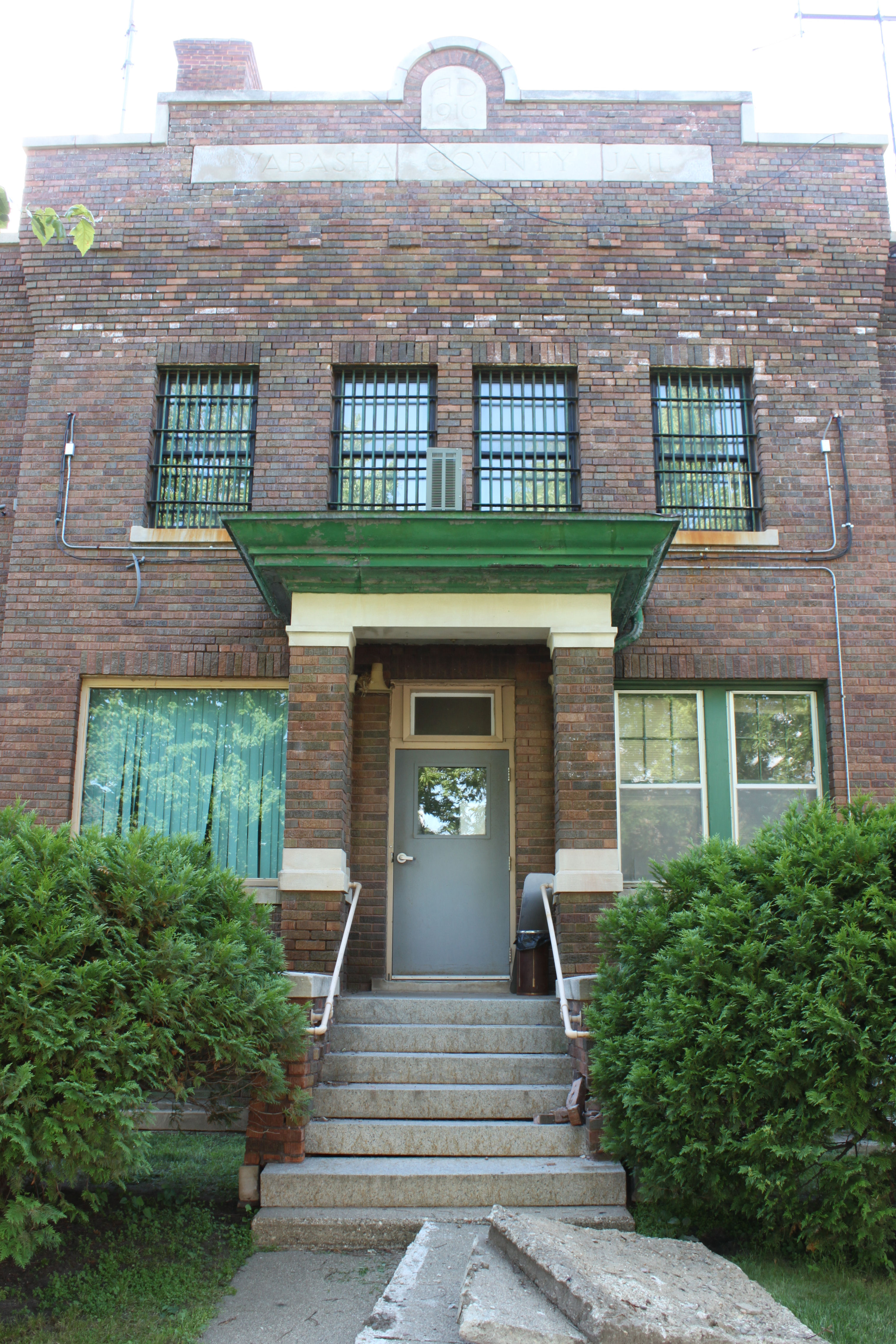 Front entrance of the Wabasha County Jail built in 1916 and scheduled to be torn down in July of 2011